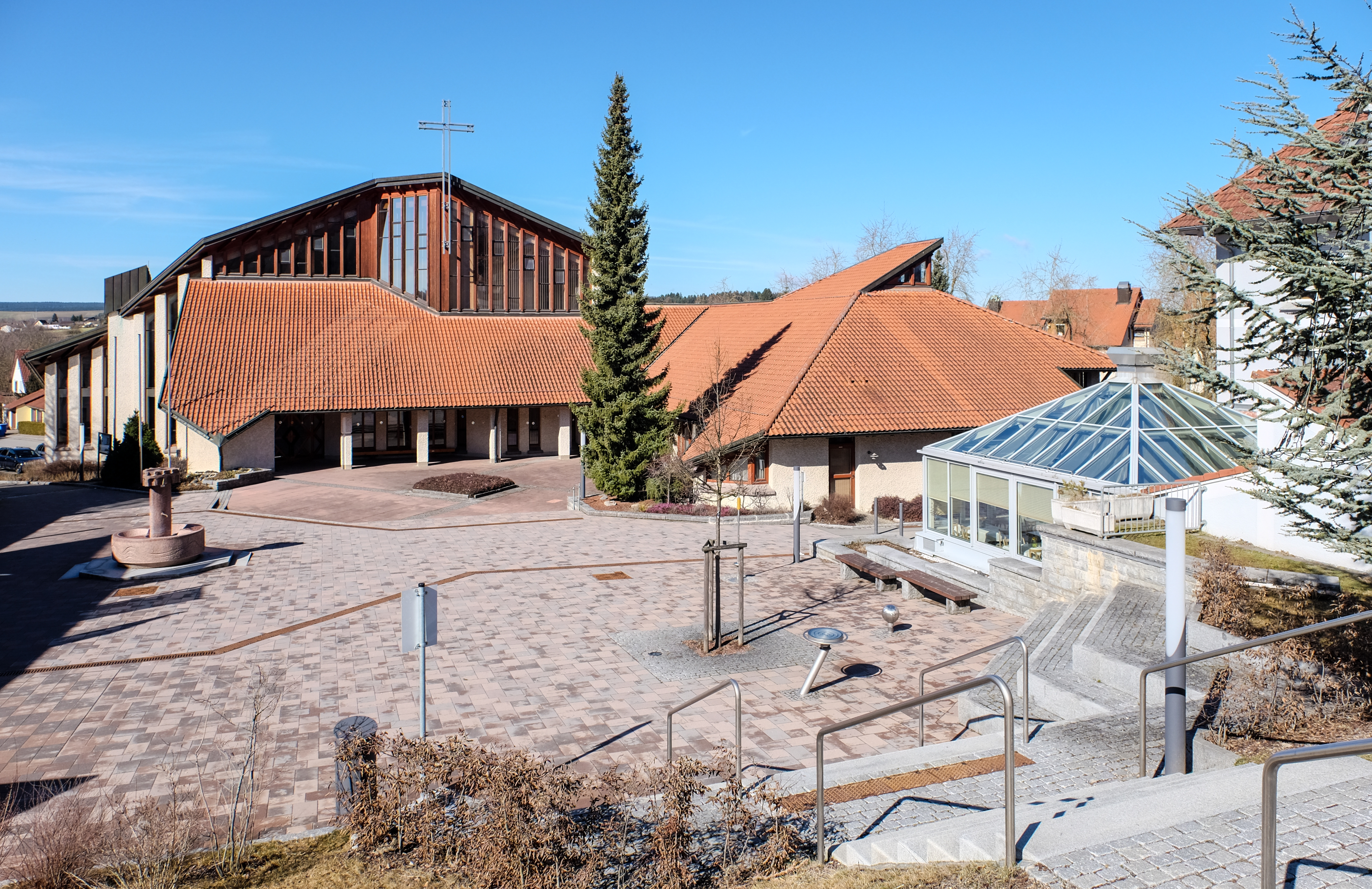 Allerheiligenkirche in Brigachtal-Kirchdorf, district Schwarzwald-Baar-Kreis, Baden-Württemberg, Germany